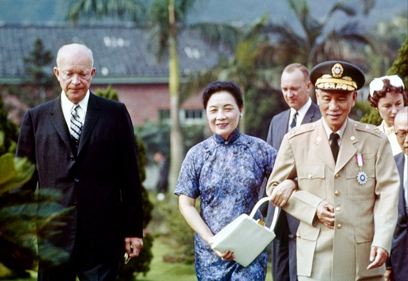 President Eisenhower visits with Republic of China President Chiang Kai-shek and Madame Chiang in Taipei, Taiwan. June 1960. Also pictured is US Ambassador to Republic of China Everett Drumright